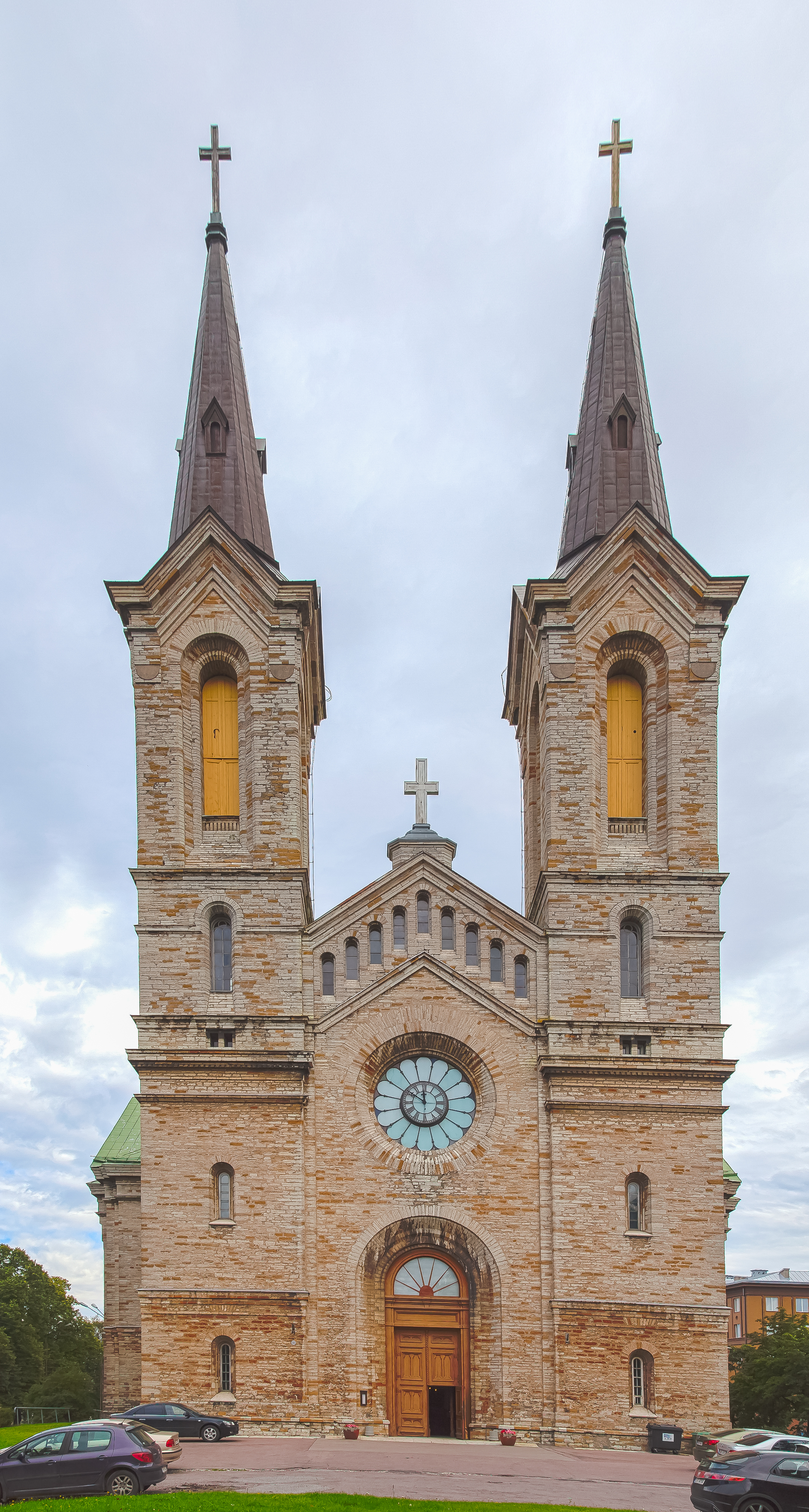 Charles's Church, Tallinn, Estonia